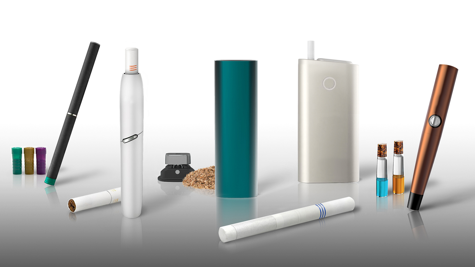 There are a variety of products colloquially called heated tobacco products and heat-not-burn products that do not appear to fit easily into universally agreed upon product categories.